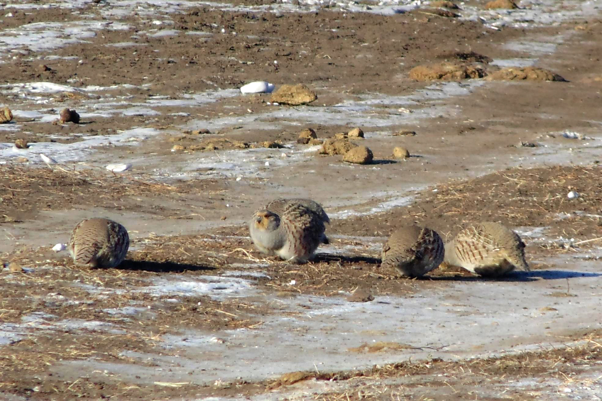 Four Daurian Partridges eating seeds off the ground in Tunkinsky National Park, Russia.